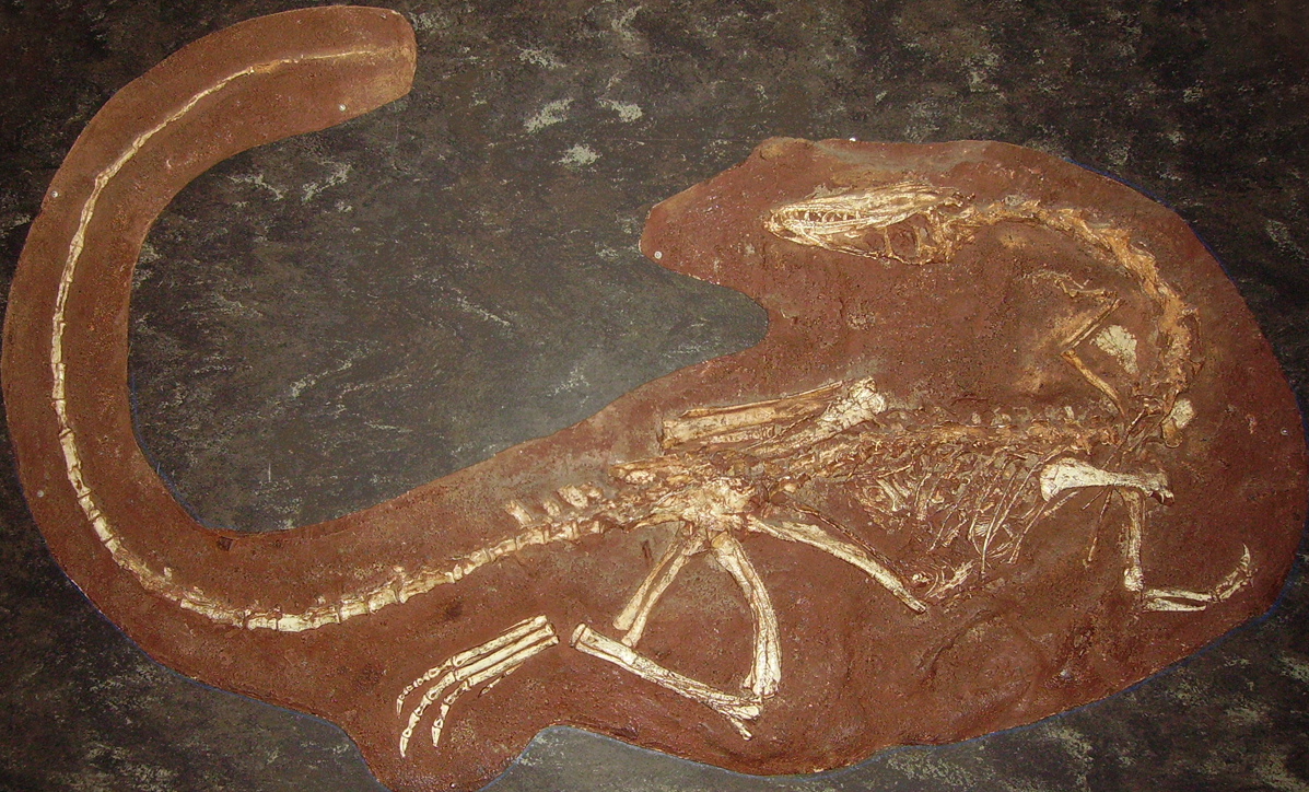 Photographer: User:Ballista Edited in Adobe PhotoShop: User:Firsfron Photographed object is in fact a cast of a real fossil. It's part of a hands-on exhibit of the NHM in London.